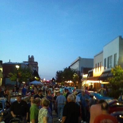 Foster Fest in Dothan downtown